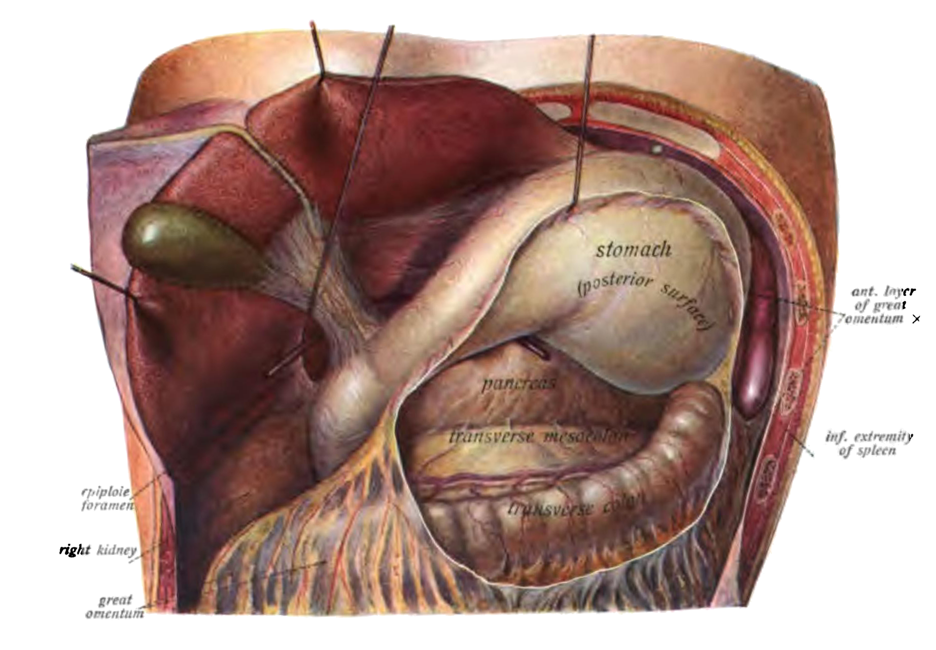 An anatomical illustration from the 1906 edition of Sobotta's Atlas and Text-book of Human Anatomy with English Terminology